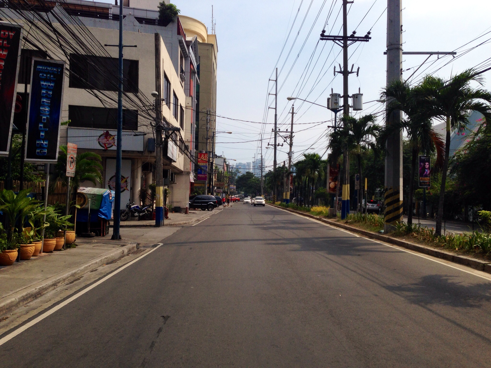 Kalayaan Avenue near Bel-Air/Rockwell Drive, Makati, Manila